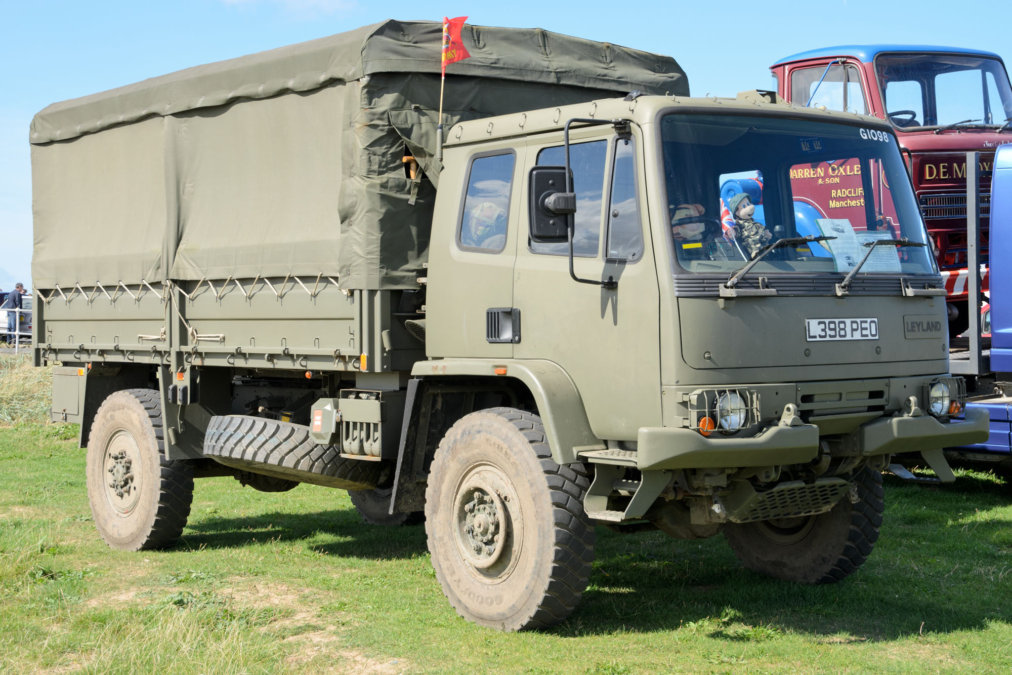 1994 Leyland DAF 45 at the Lytham Classic Car Show 11/09/2016